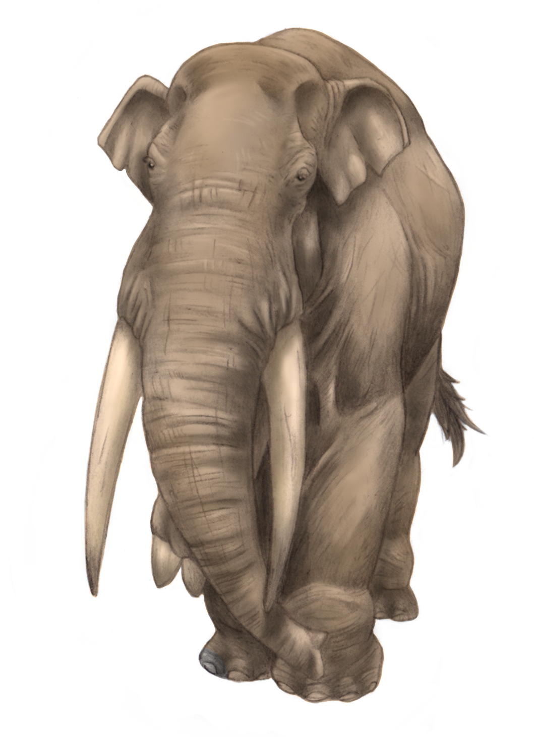 Tetralophodon from Cerro de Batallones, Middle Miocene, Spain.